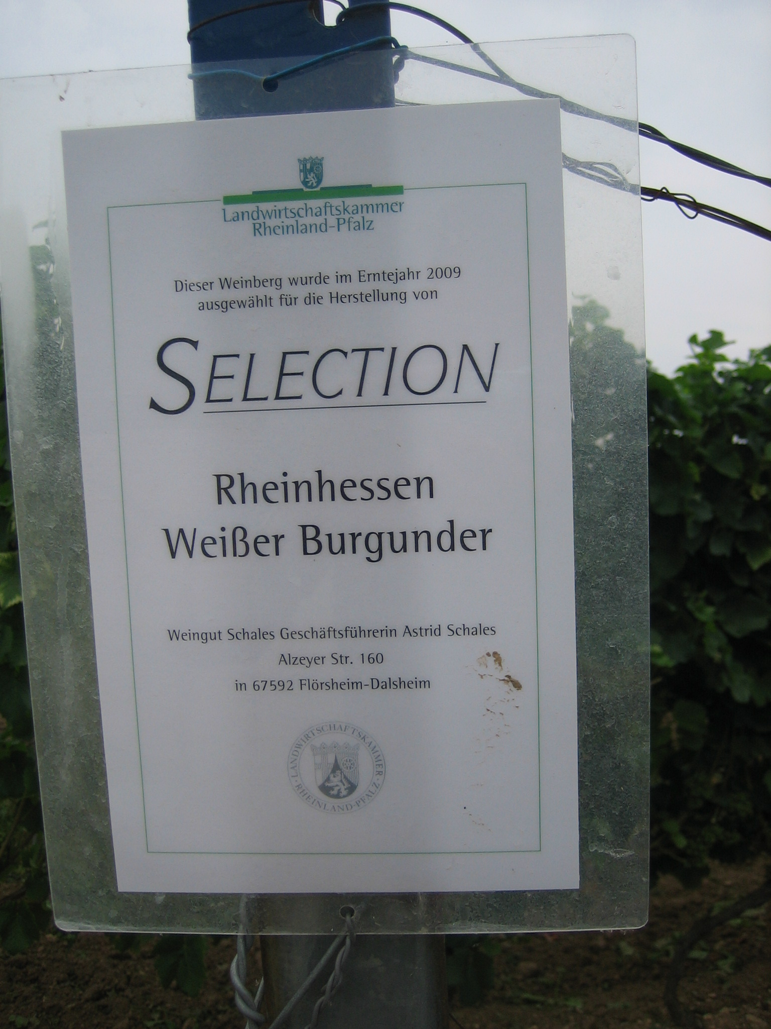 identification marking or a vineyard, designating him for the capability to produce Selection wine, a special selection under conditions. Appraiser: Landwirtschaftskammer Rheinland-Pfalz.